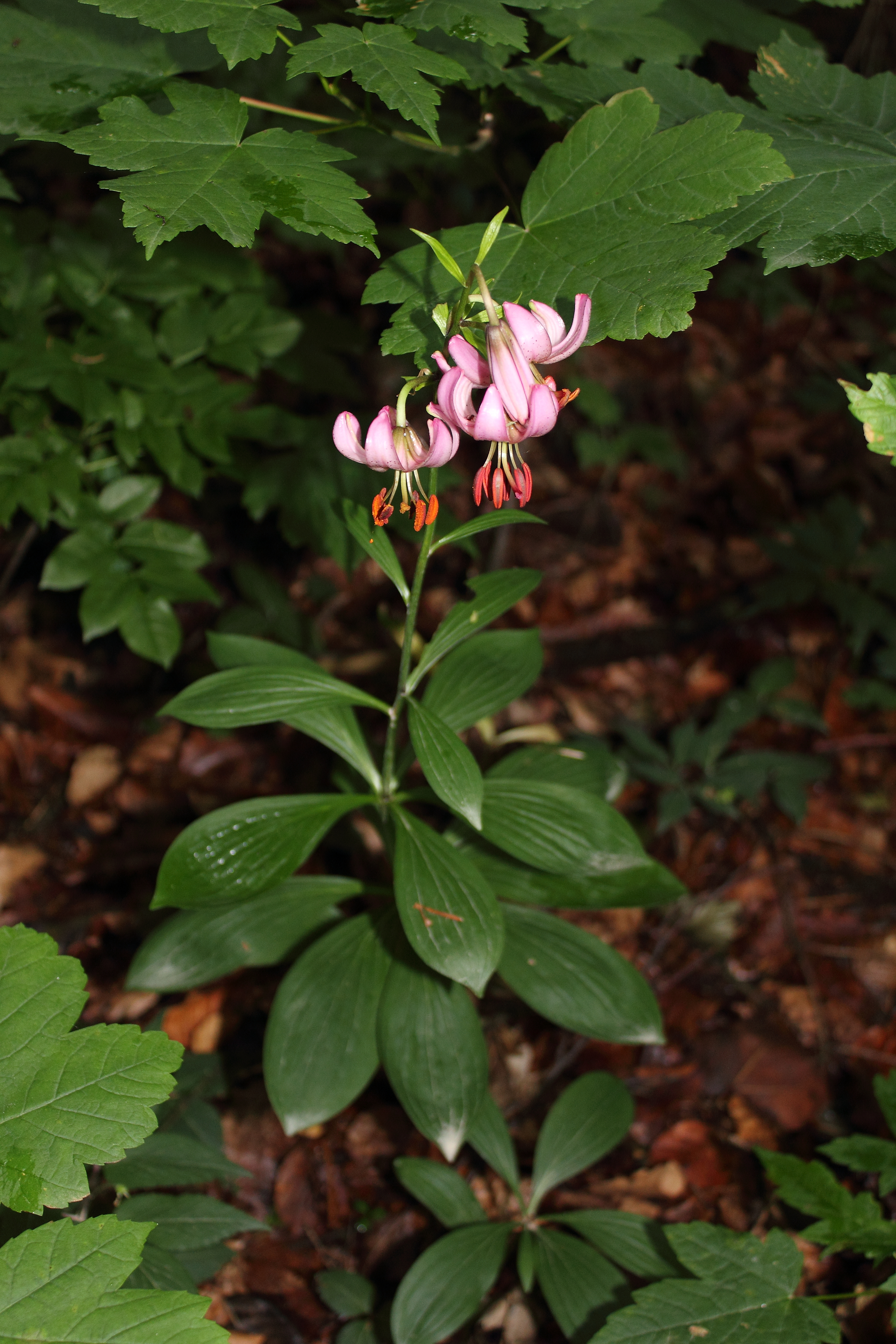 Lilium martagon found in St. Paul/Lavanttal, Carinthia, Austria